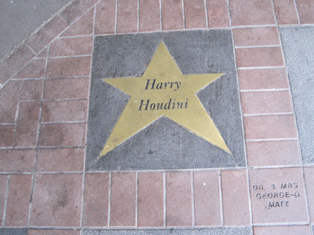 Walk of fame at the Orpheum Theater in Memphis, Tennessee. Harry Houdini